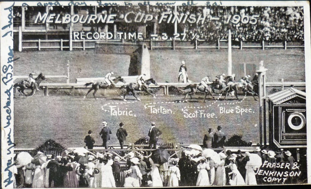 Fishin of the 1905 Melbourne Cup.